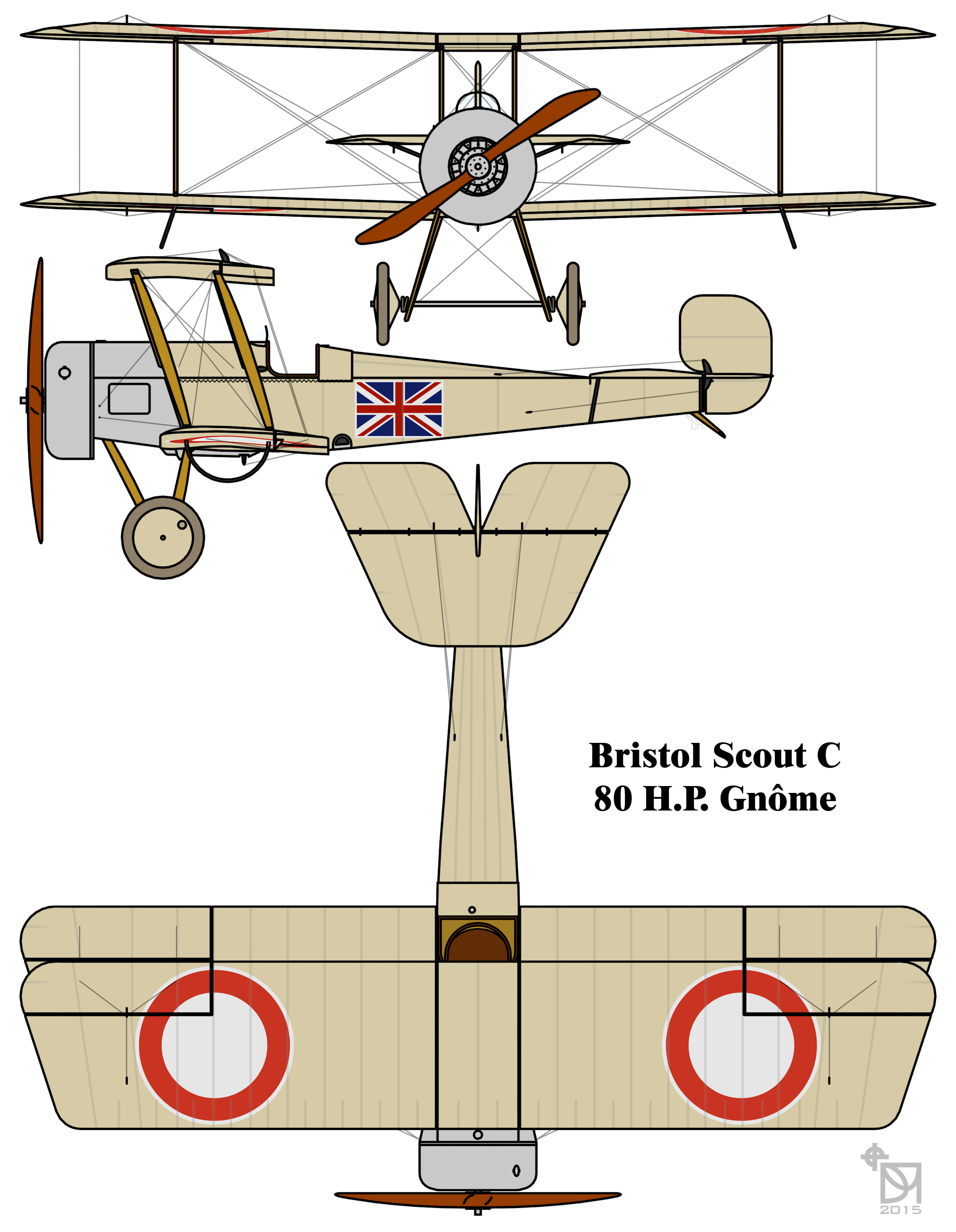 Bristol Scout C British First World War fighter biplane drawing in RNAS markings